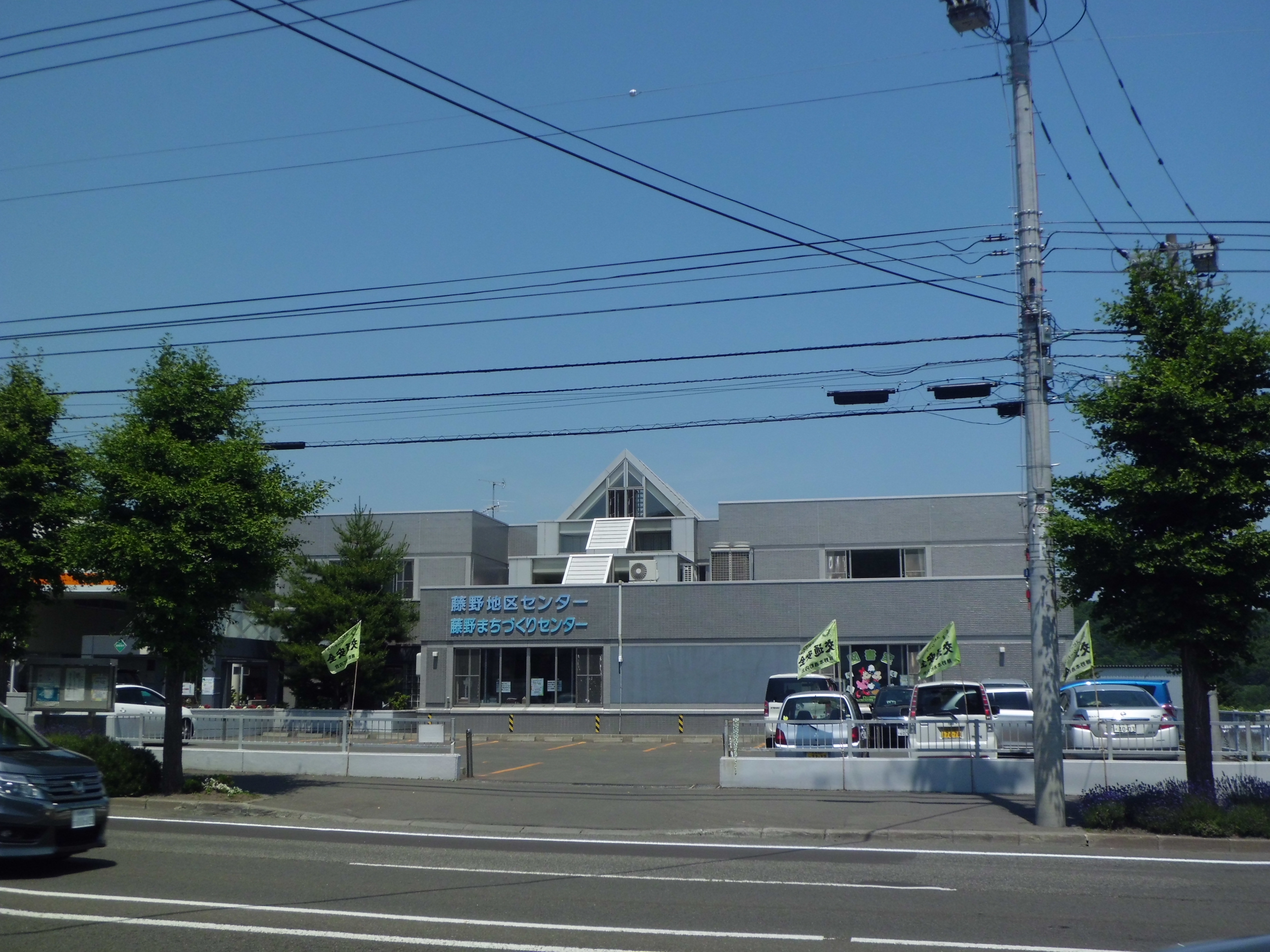 Fujino Local Center